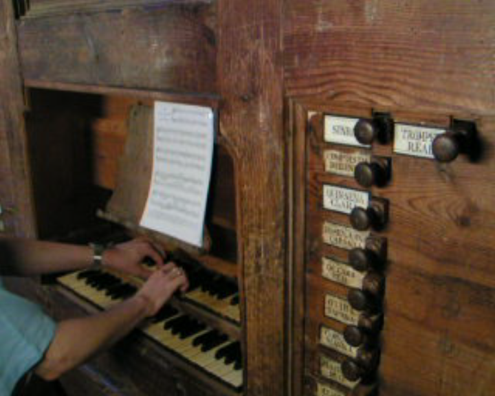 photo of the playing console of the old organ of Marchena